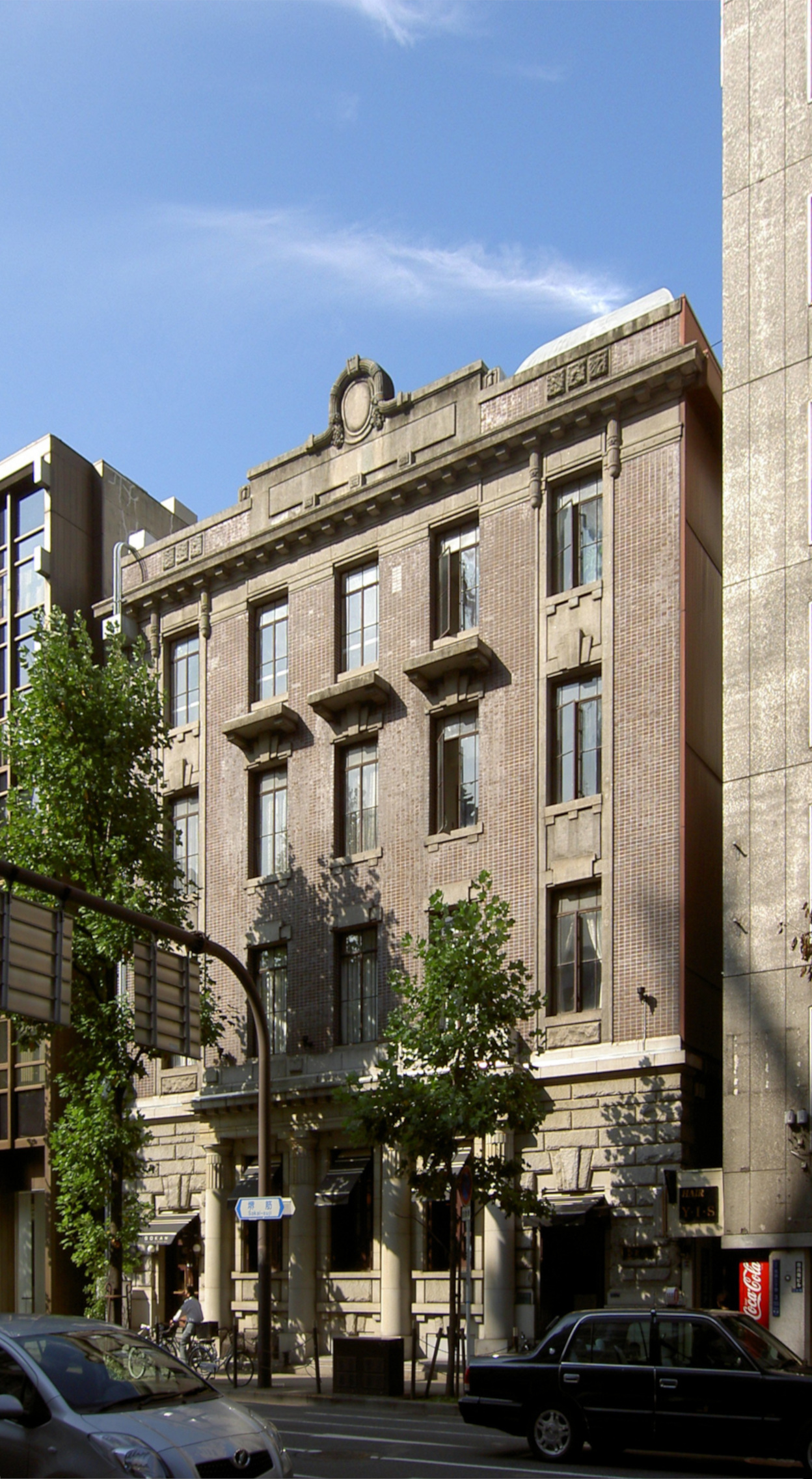 Arai building (former Hotoku bank Osaka branch). Year established 1922. Imabashi, Chuo-ku, Osaka-shi, Osaka, Japan.